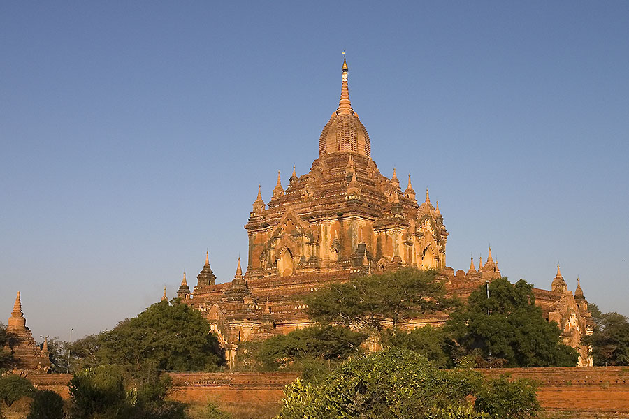 The 13th-century Htilominlo Temple at the Bagan Archaeological Site, Bagan, Myanmar (Burma)